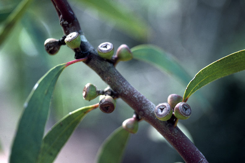 Fruit of Eucalyptus gregsoniana in the Australian National Botanic Gardens